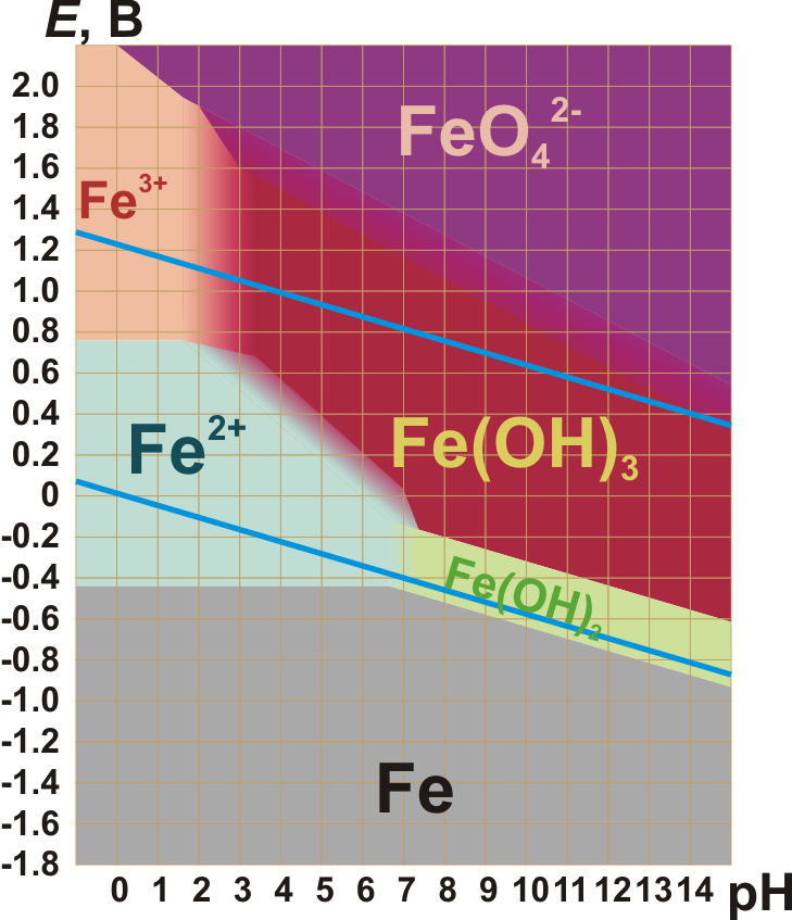 Pourbaix diagram for iron. The colours are relevant to the real forms. Fuzzy borders depend on concentration, sharp borders do not depend. Cyan lines denote the borders of water stability region. The diagram is plotted basing on the data from: Handbook for Chemist, vol. 3, Chemistry Publishers, pp. 772-777 (in Russian)